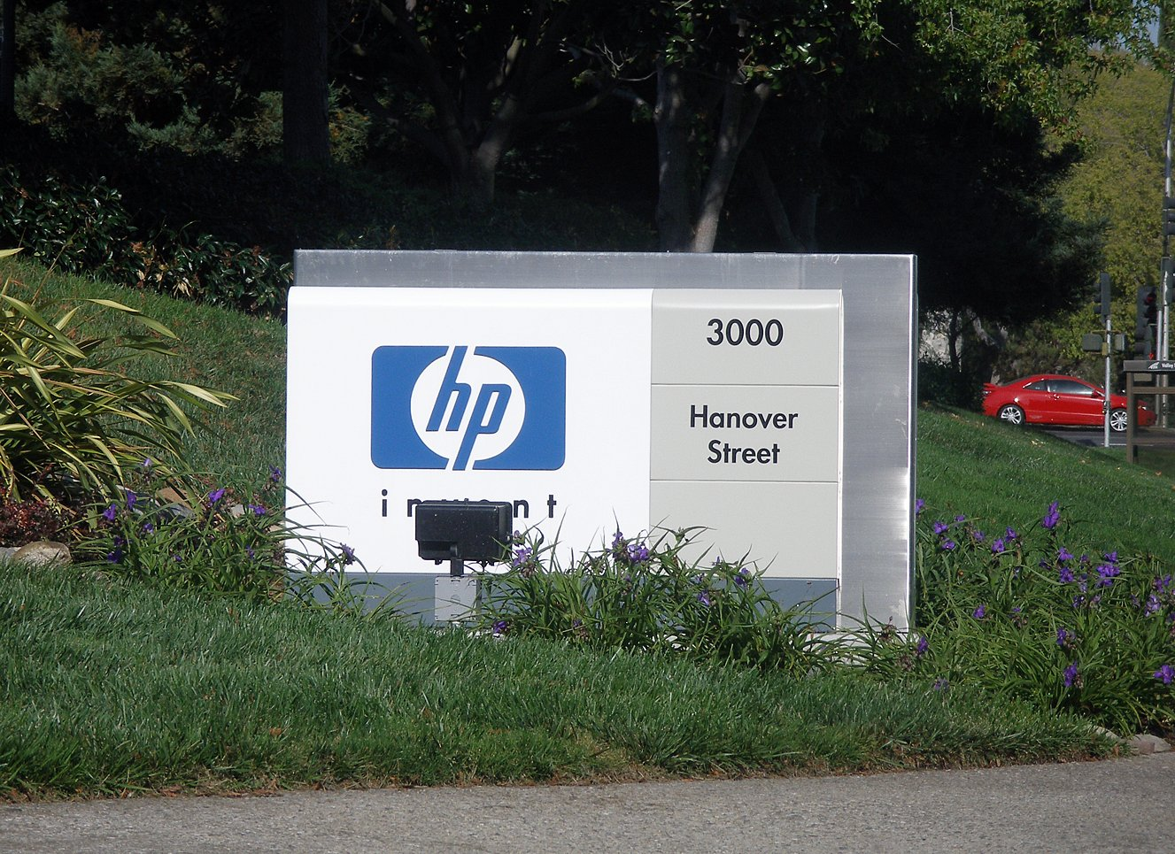 This sign welcomes visitors to the headquarters of the Hewlett-Packard Company at 3000 Hanover Street in Palo Alto, California.